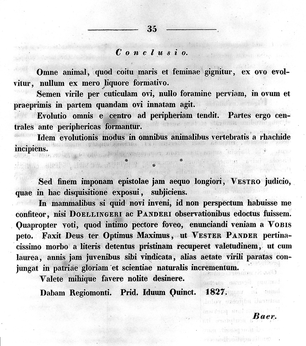 "Conclusio" Rare Books Keywords: Carl Ernst von Baer